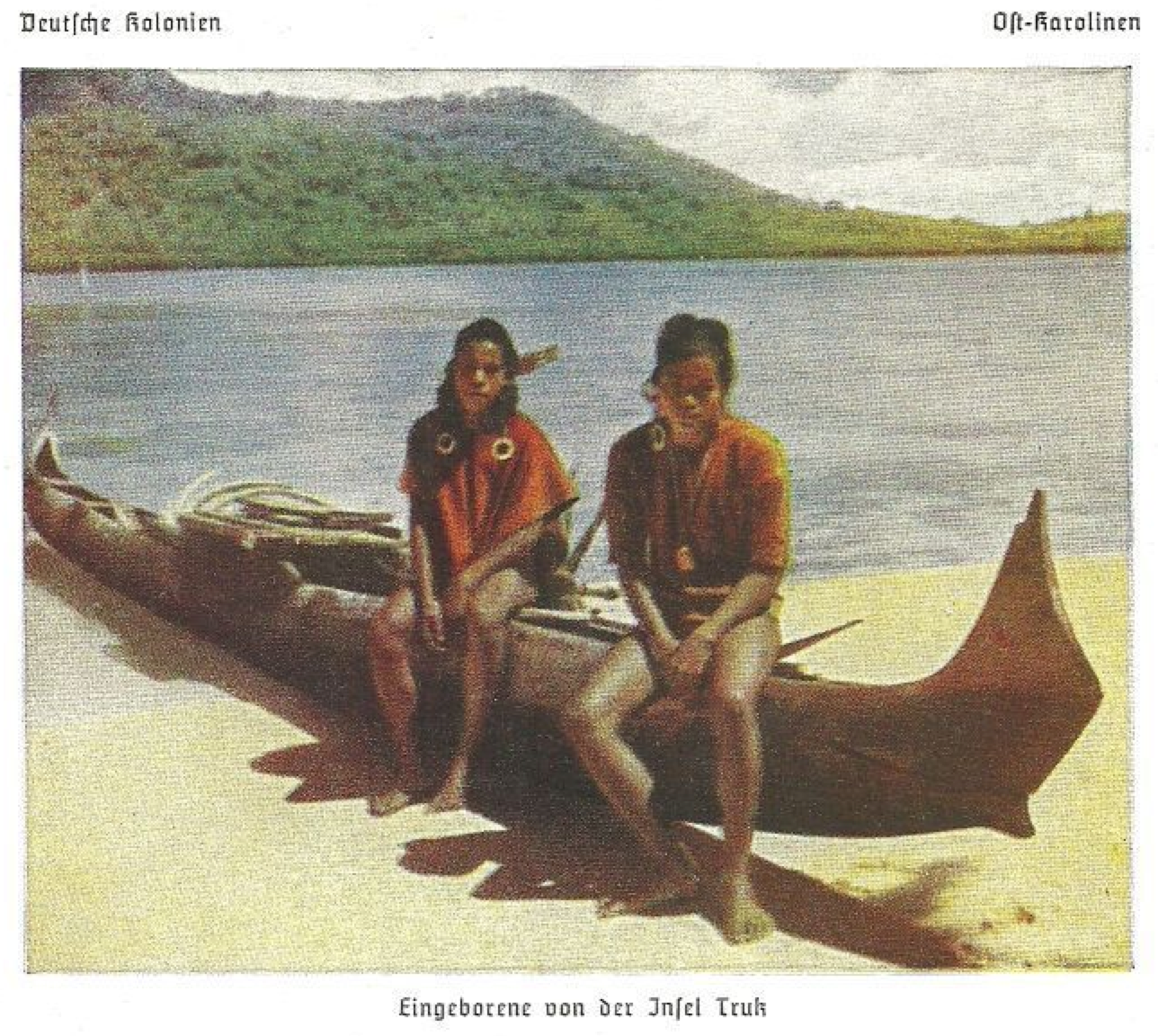 Postcard found on eBay from the late 19th or perhaps early 20th century. Text in German reads: "German Colonies / Eastern Carolines / Natives of the island of Truk" The earrings, clothing and wa (proa type canoe) of two native islanders can be seen. Note: The seller states the postcard is from the 1930s, however the real date is somewhere between the German-Spanish Treaty of 1899 and the Japanese occupation of the islands in 1914.